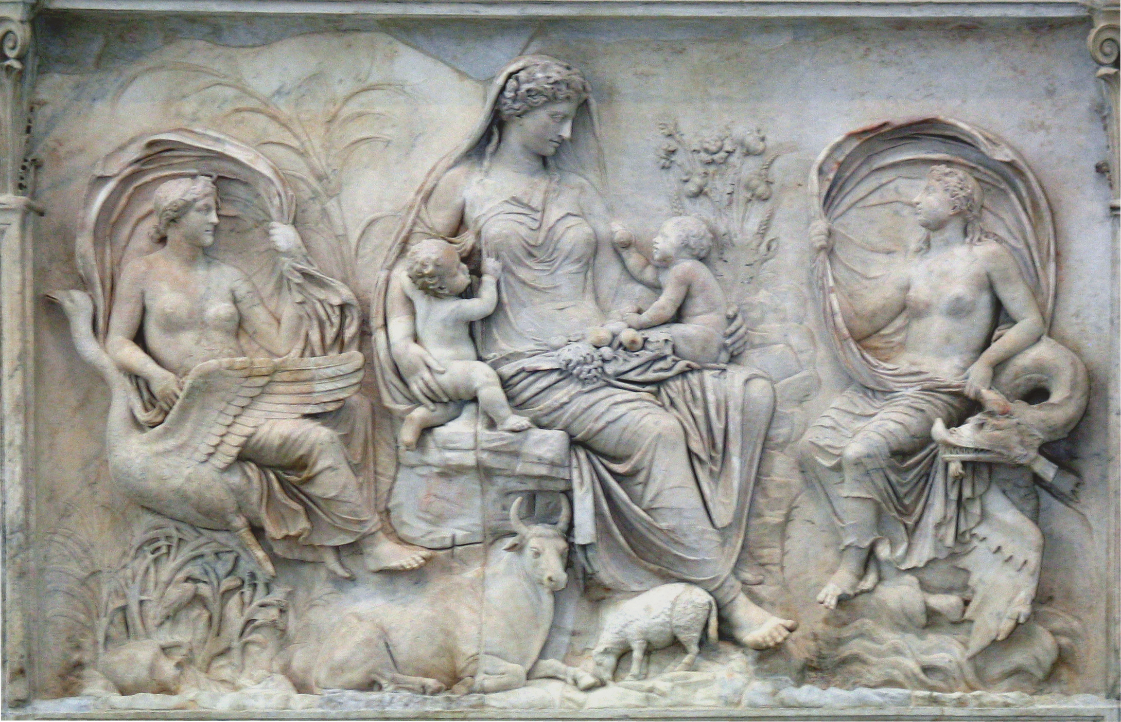 On the eastern side of Ara Pacis is a relief of Tellus Mater, the Roman earth-goddess